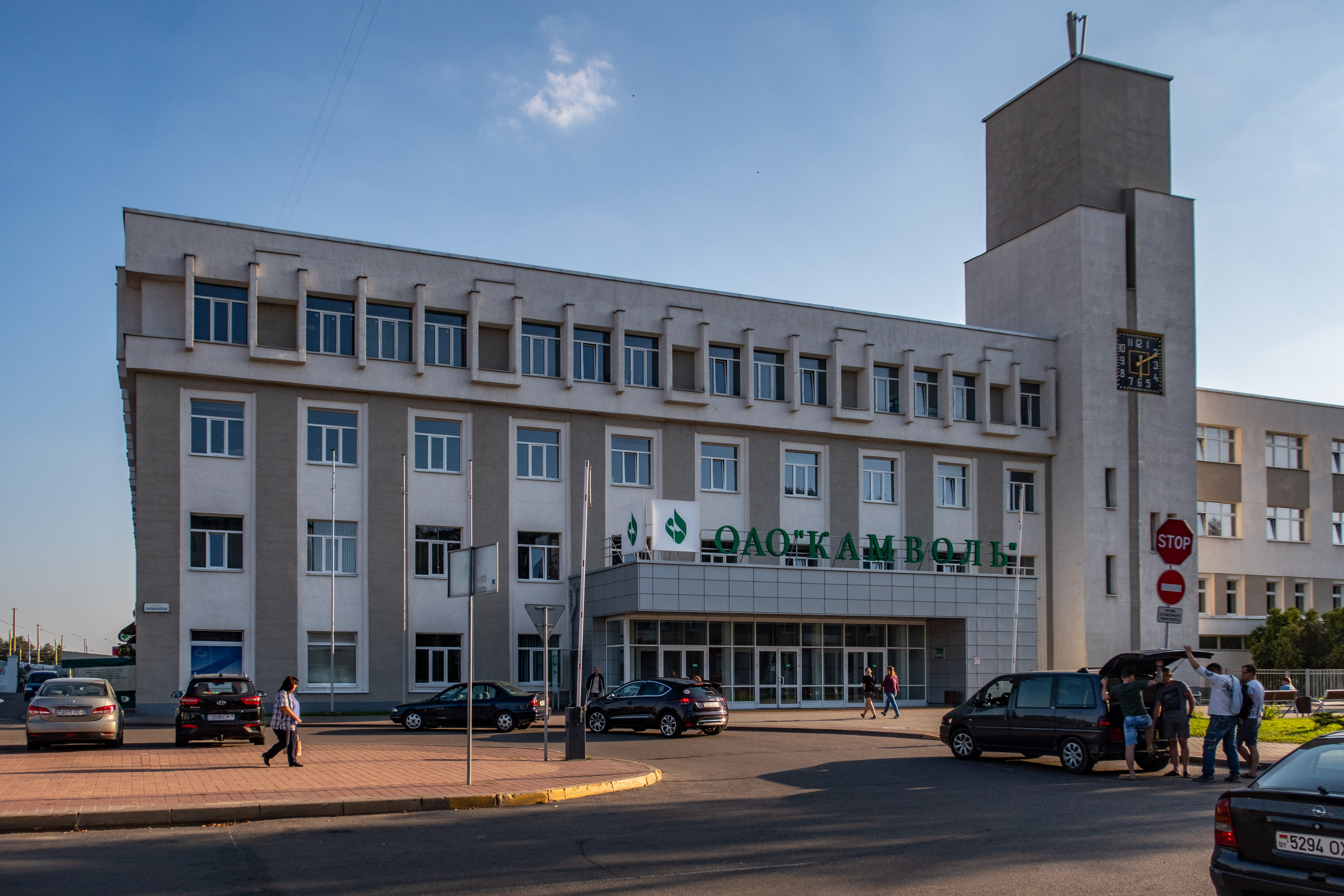 Minsk worsted fabrics factory (Kamvol OJSC). Minsk, Belarus